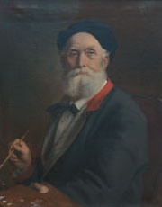 Self portrait